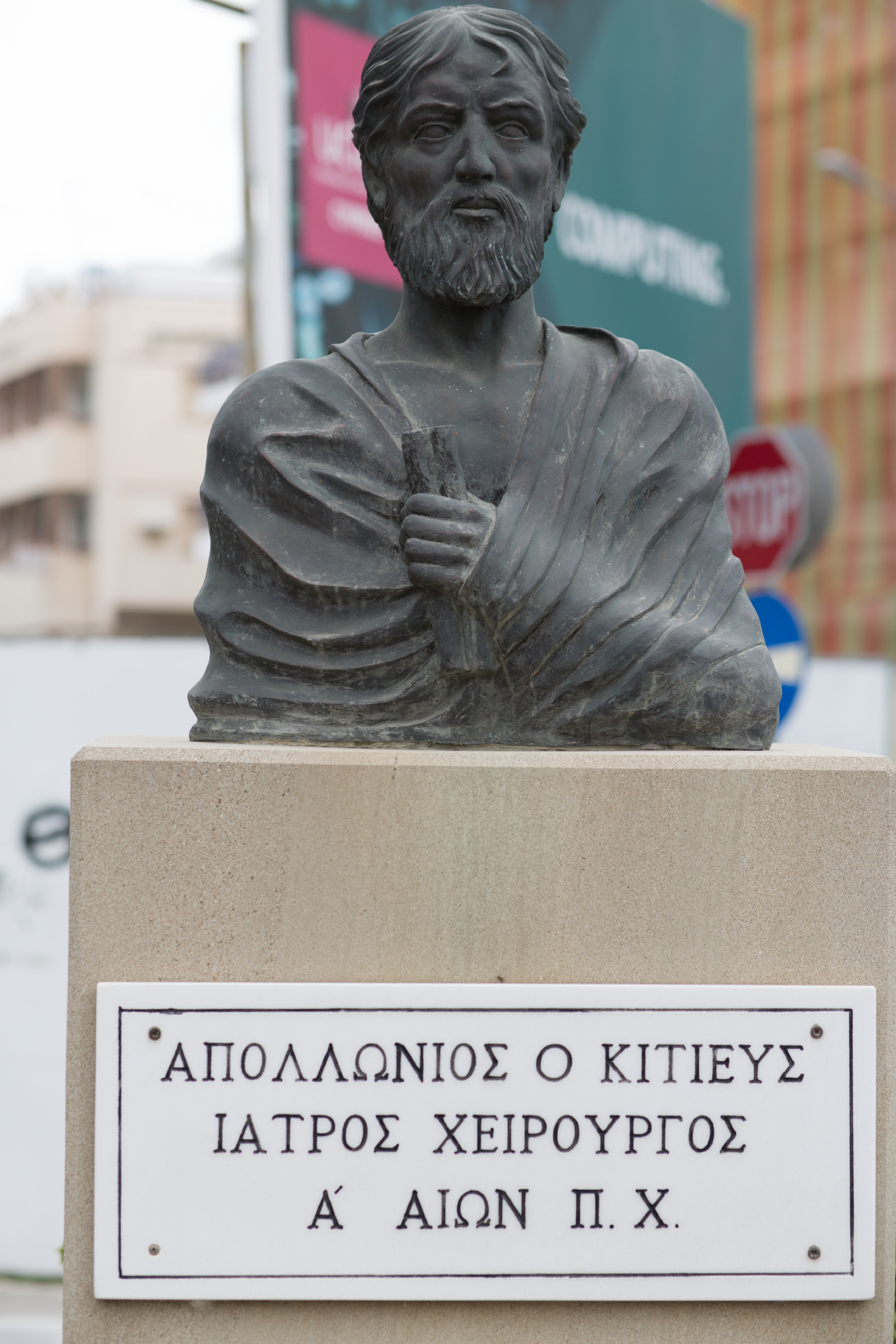 Monument of Apollonios of Kition in Larnaca